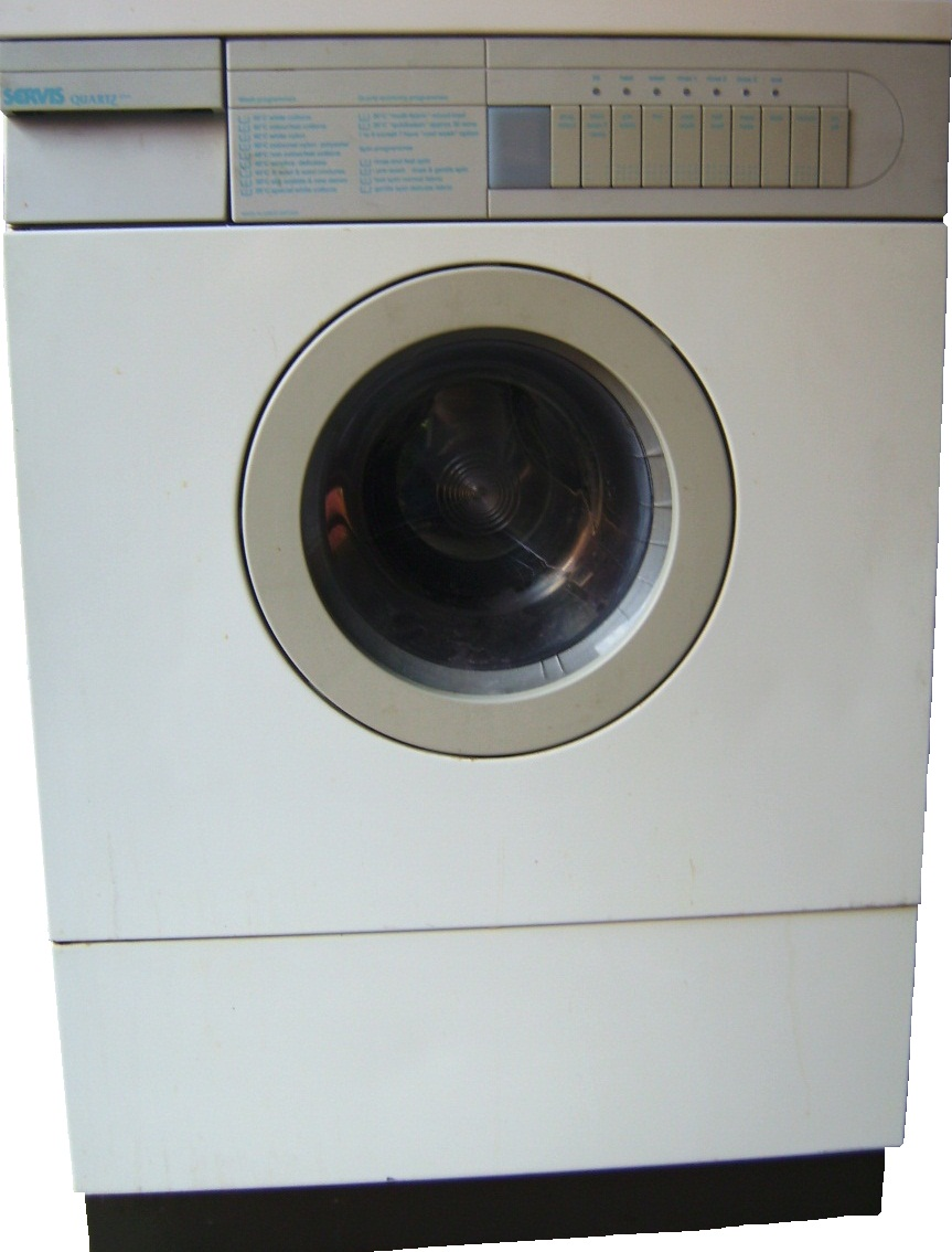 Servis Quartz 04KG 1000 AutoWasher 6033, one of the piano key model Servis machines.